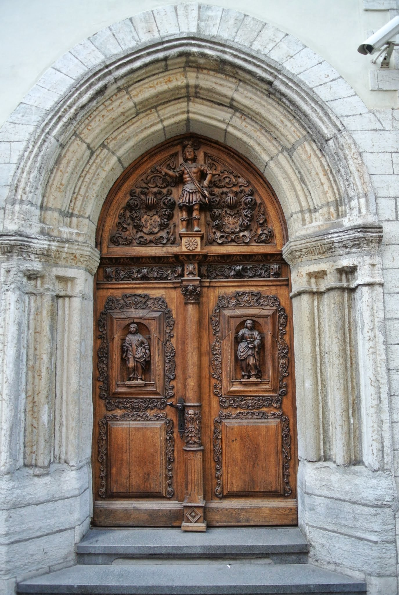 Old Town of Tallinn, Tallinn, Estonia